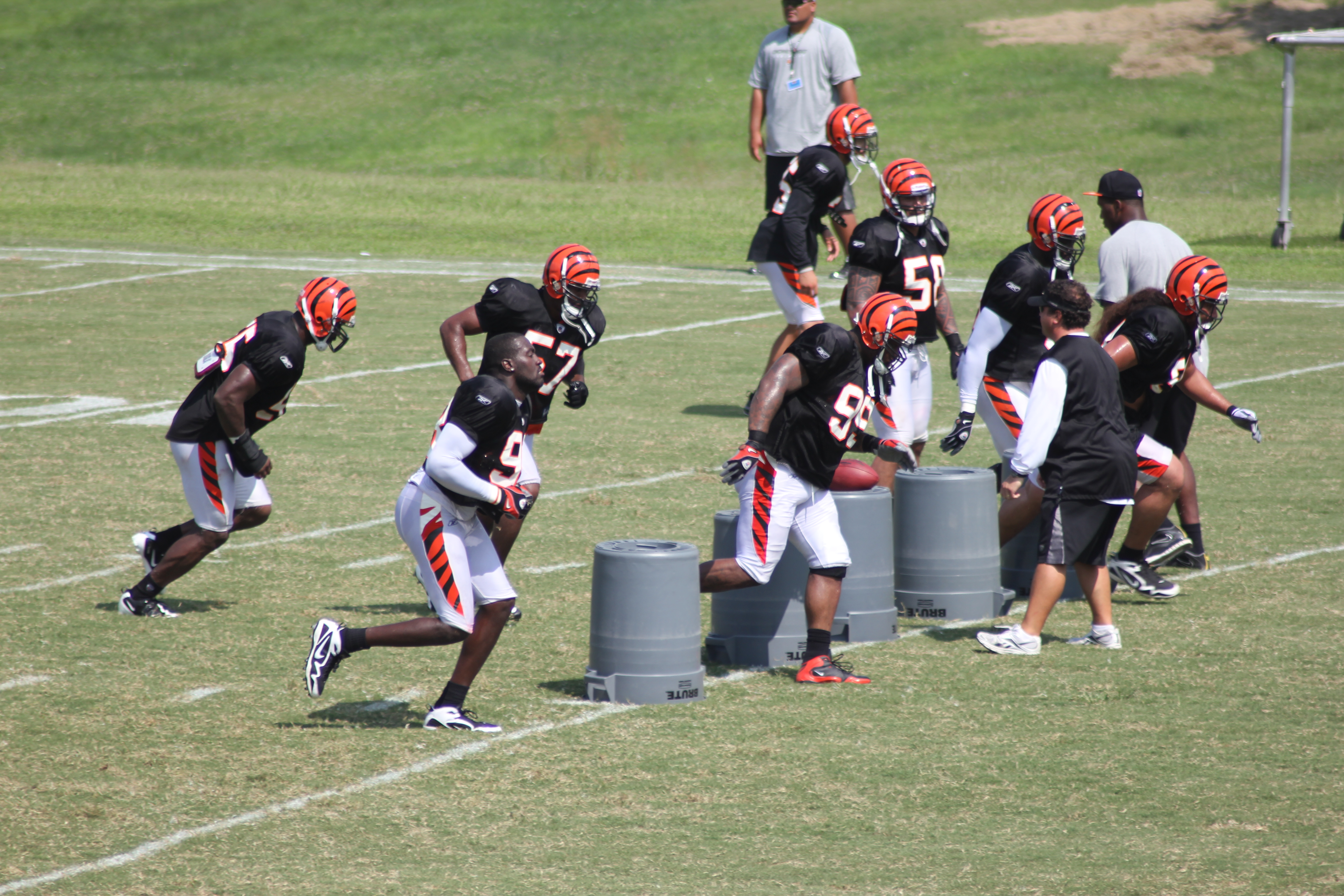 Defensive players practice at Cincinnati Bengals training camp.